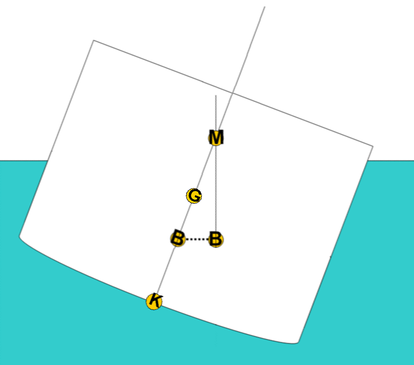 Diagram showing transverse section of a ship to describe the definition of the metacentre of a ship